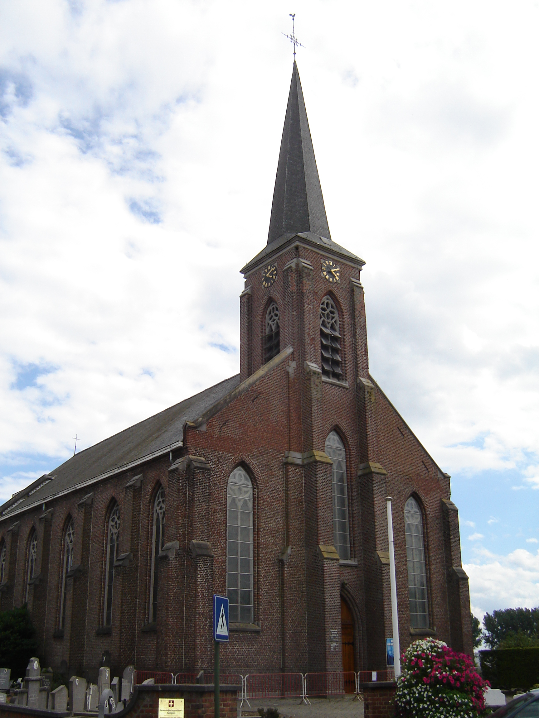 Church of Saint Amelberga, in Bossuit, Avelgem, West Flanders, Belgium.